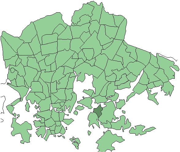 Districts of Helsinki, Tullisaari highlighted